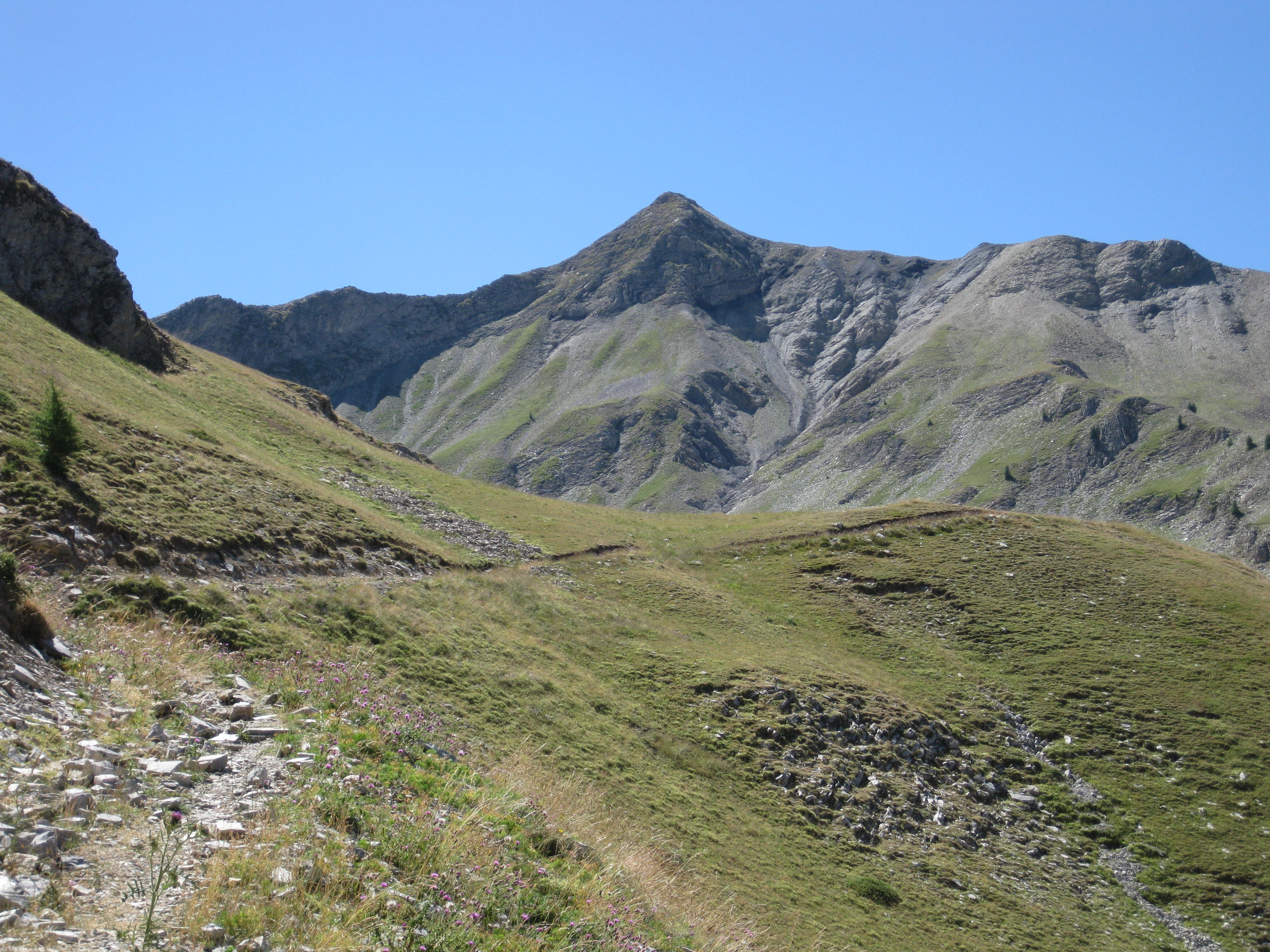 Le Piolit (2464 m), mountain in France (High Dauphiné, Département Hautes-Alpes). South view from Cabane de la Selle.